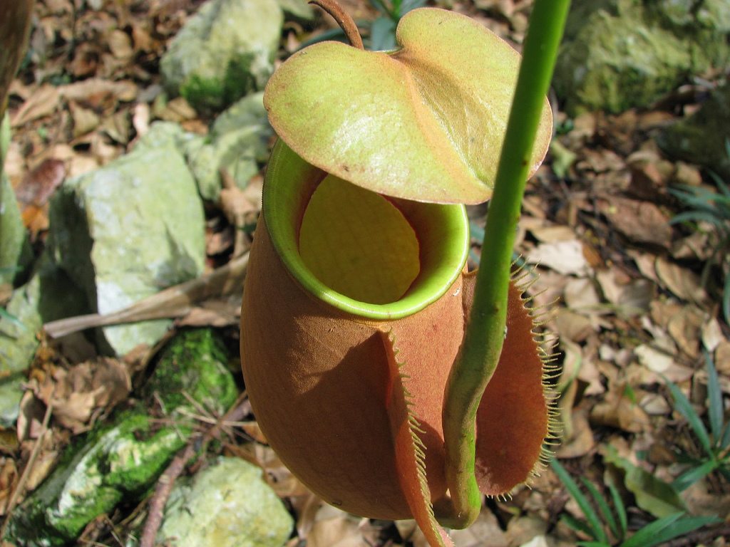 Pitcher Plant. Nepenthes. Also locally known as "Monkey Cup". Nepenthes are herbaceous non-woody plants which generally grow as long twining vines with pitchers. The pitchers are actually highly specialized leaves that act as passive pitfall traps (for little insects). Taken Aug 26, 2007 at Pitcher Plant & Wild Orchid Garden situated at 10th Mile Kota Padawan, Kuching, Sarawak.